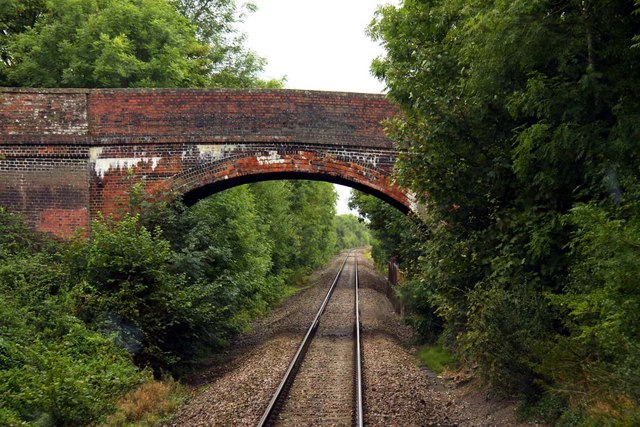 Widham Bridge